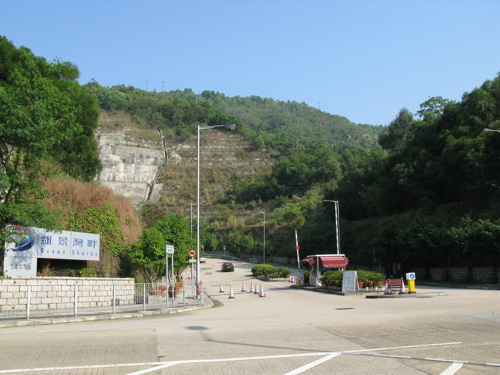 Ocean Shores Yau Tong Entrance, O King Road